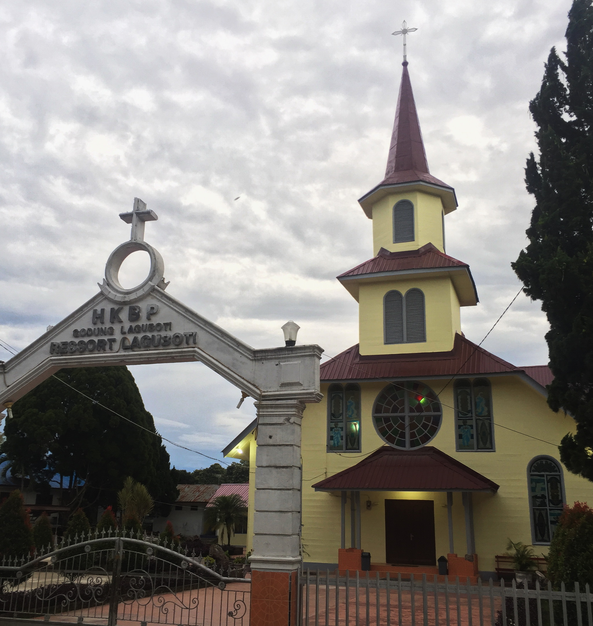 HKBP Godung Laguboti, Church in Laguboti, Toba Samosir